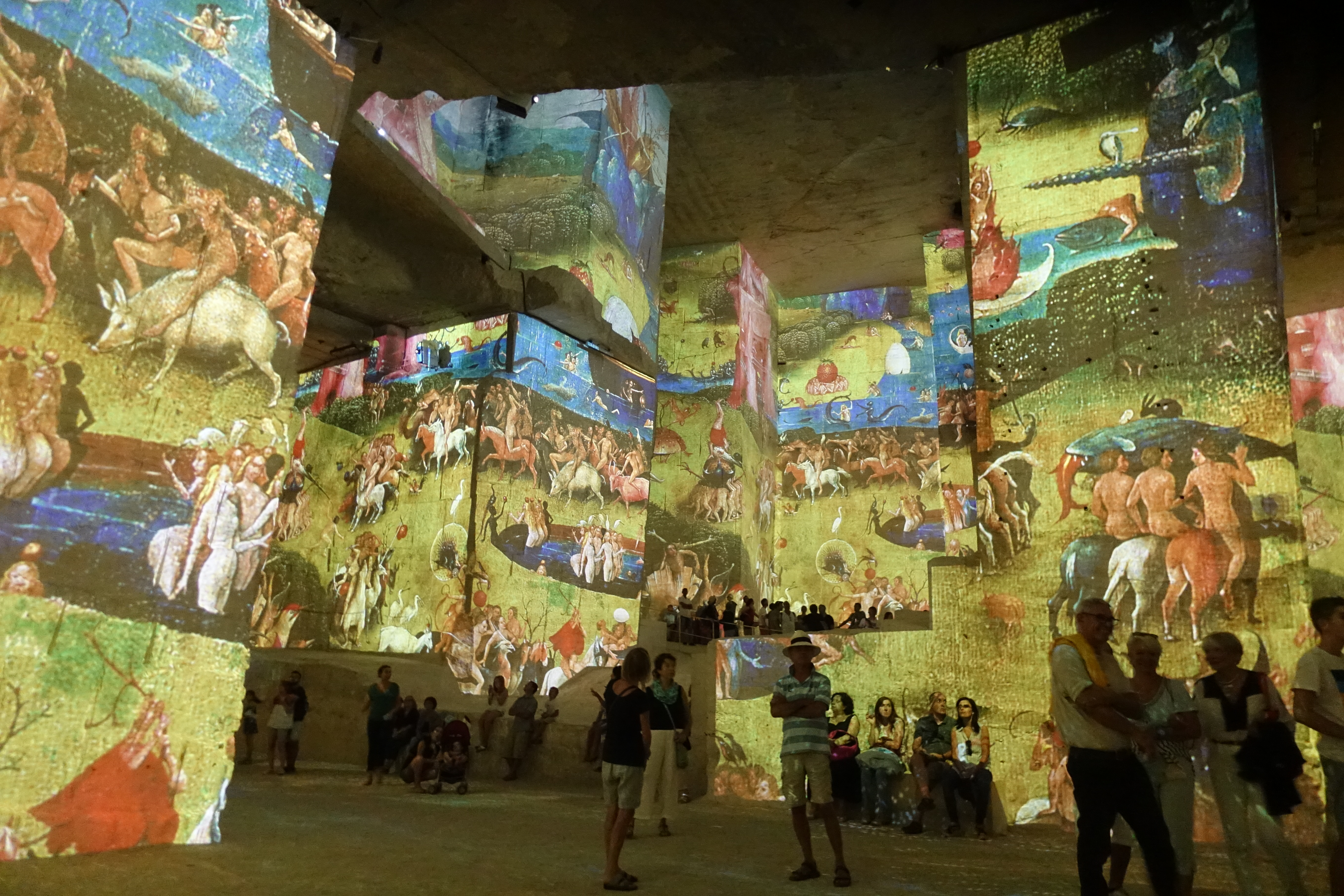 Carrières de Lumières in 2017, France